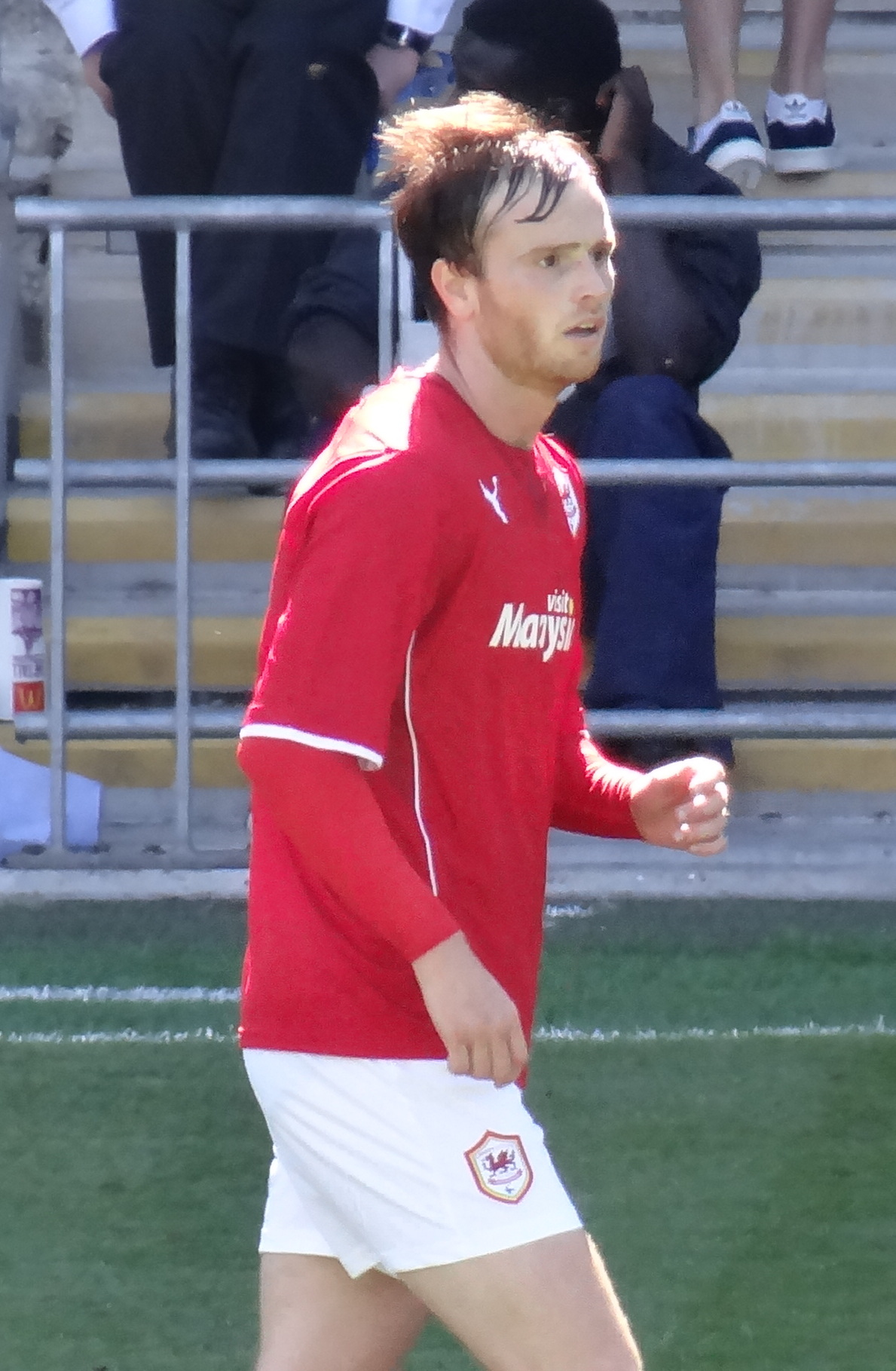 John Brayford playing for Cardiff City in a pre-season friendly against Chievo Verona in 2013.